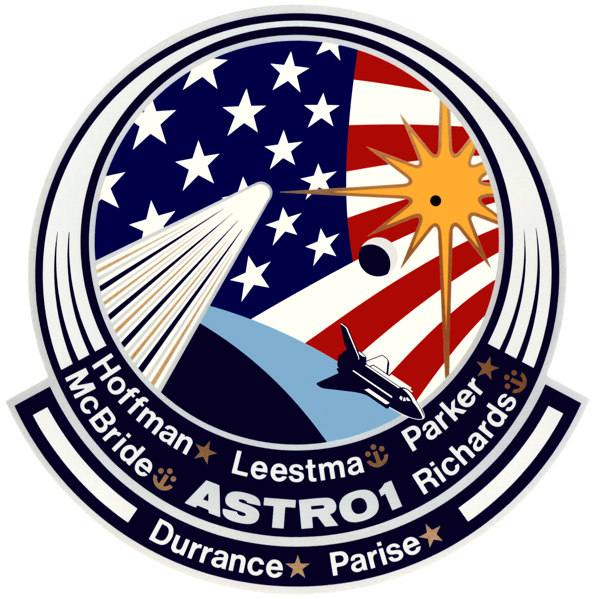 Mission insignia for the cancelled Space Shuttle mission STS-61-E